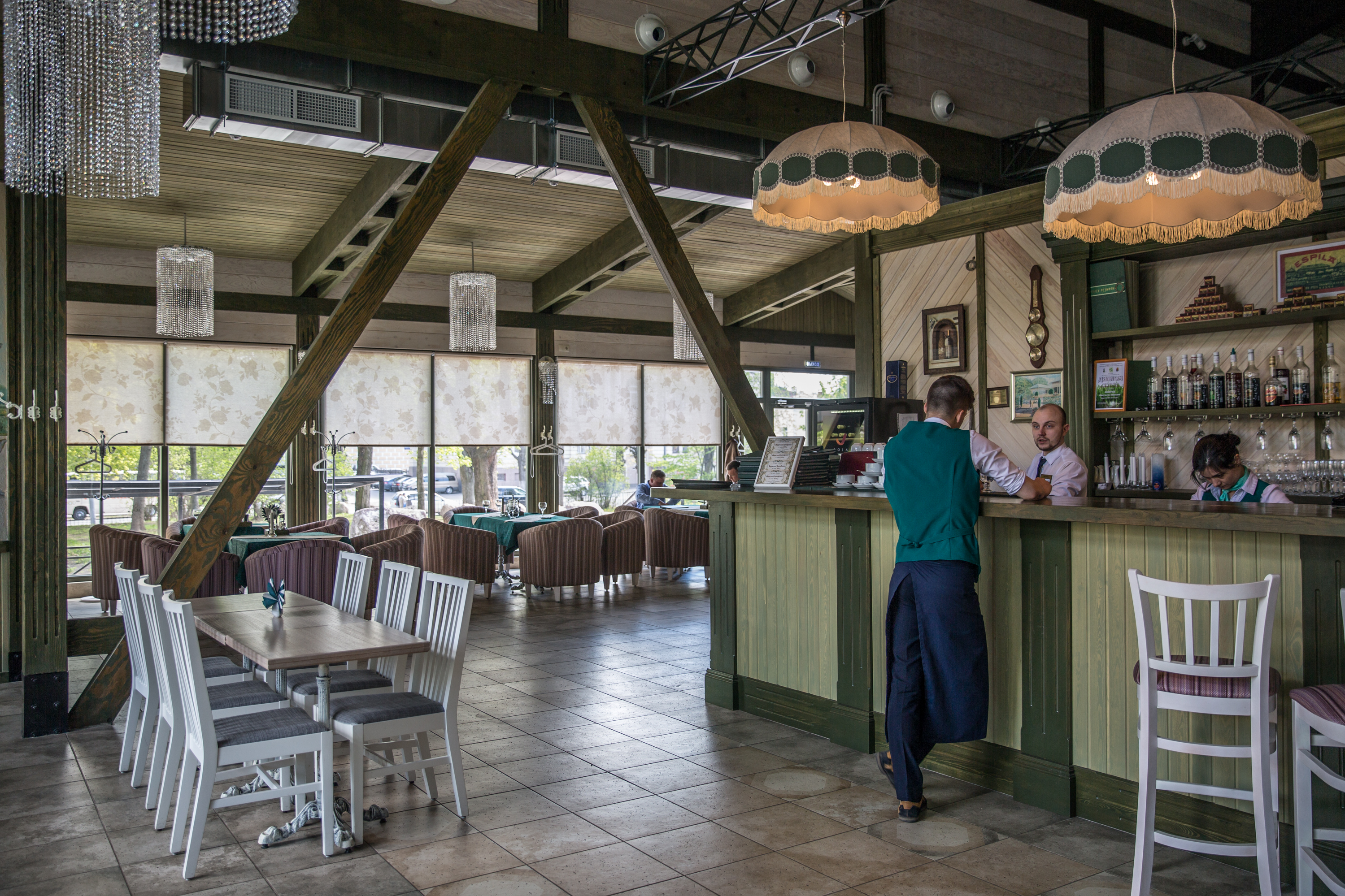 Restaurant Espilä